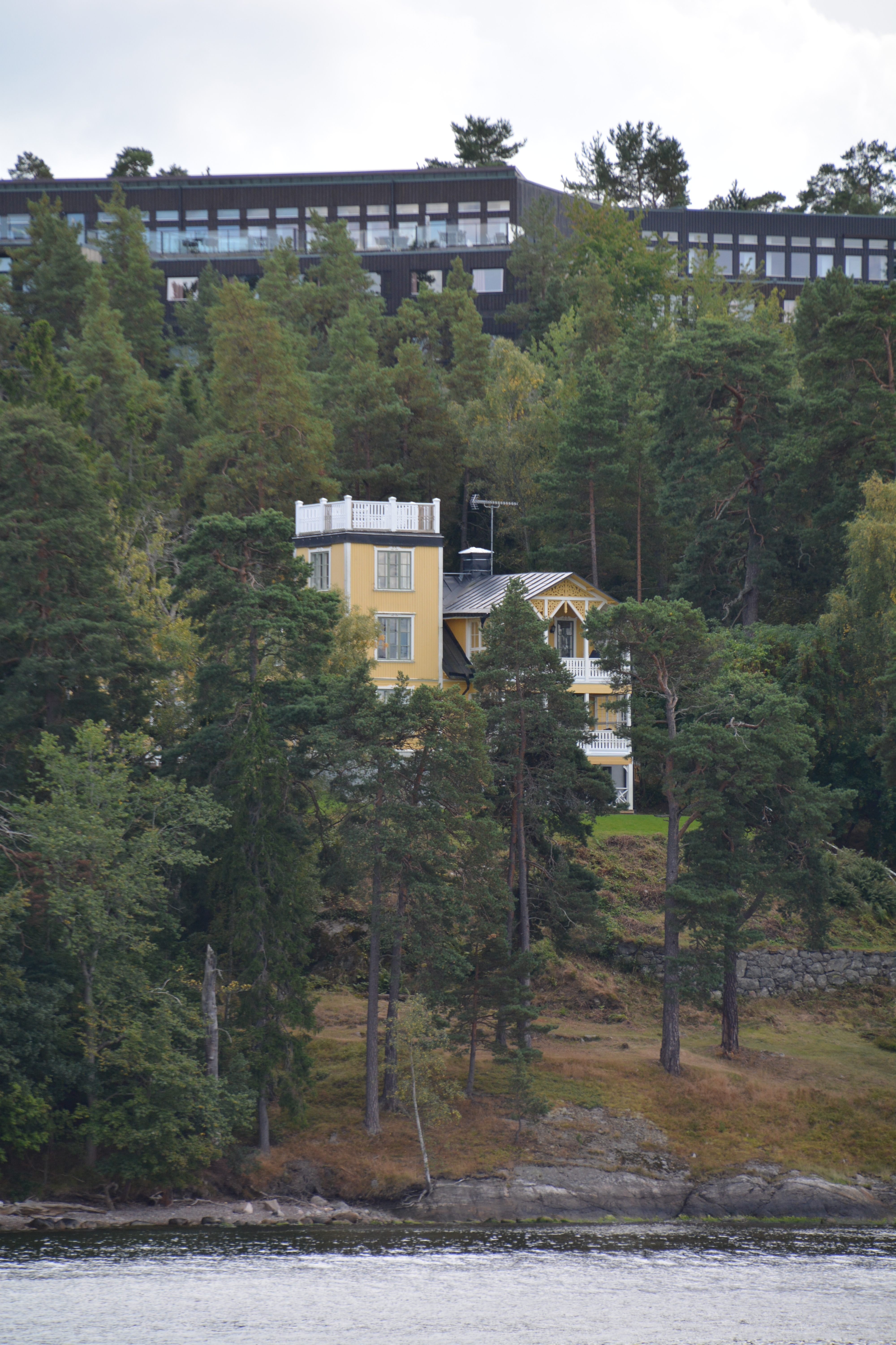 Earlier conference center of Landsorganisationen, Hasseludden, Nacka, Sweden